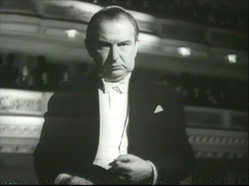 Fritz Reiner from "Carnegie Hall".